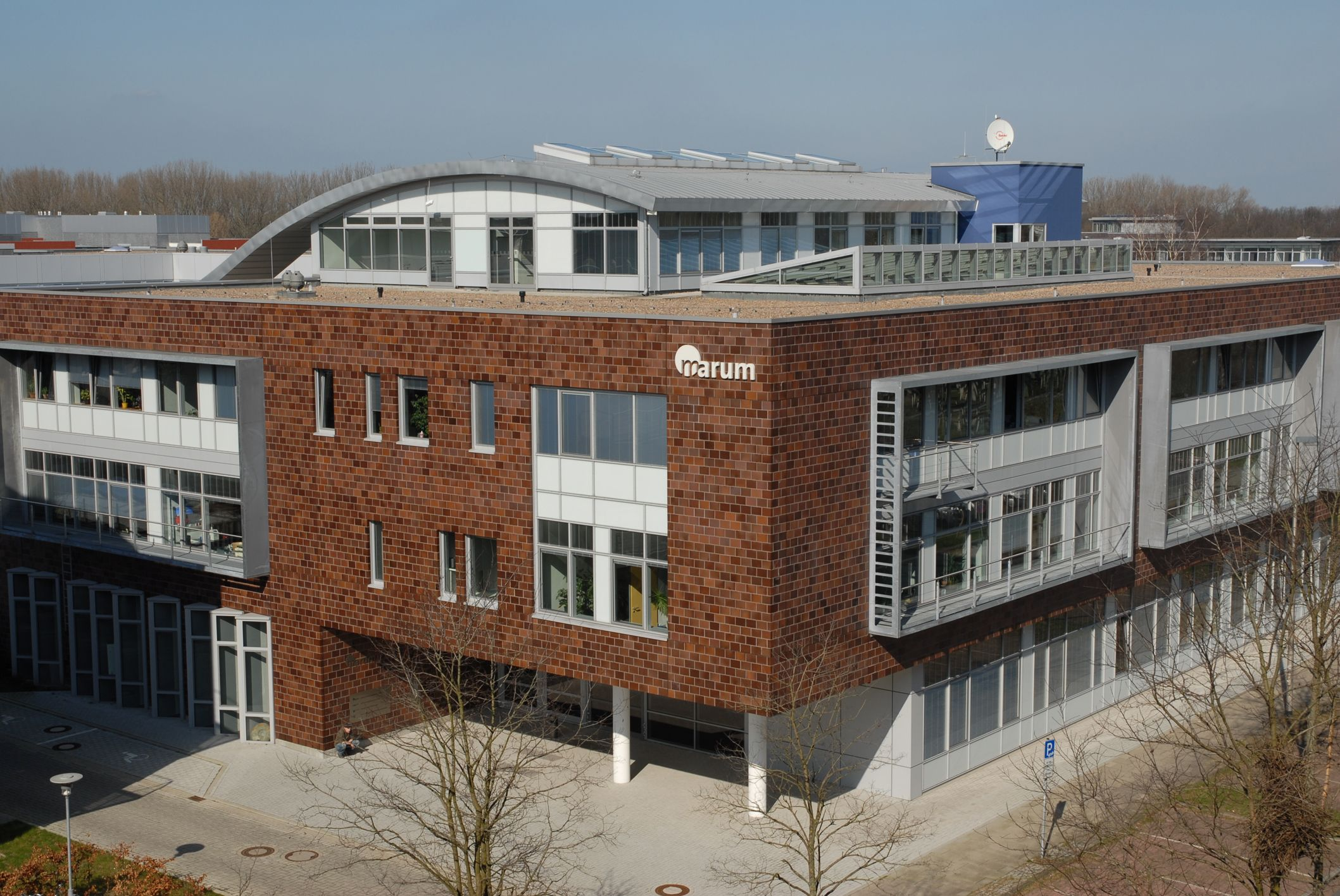 MARUM, University of Bremen